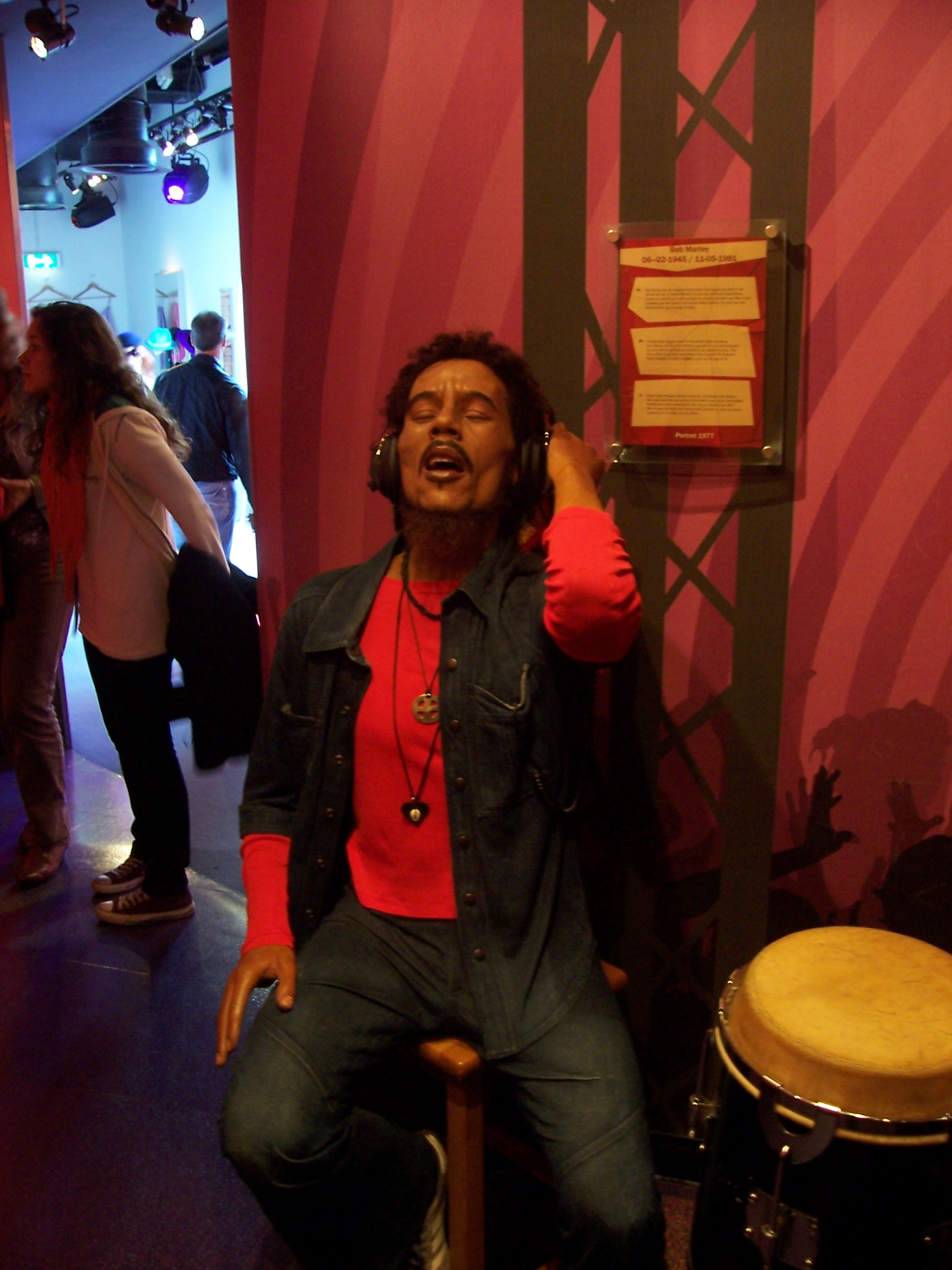 Singer Bob Marley In Madame Tussaud Wax Museum, London